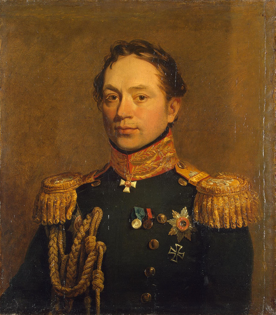 Portrait of Grigorij Rosen (1782-1841) a Russian General.